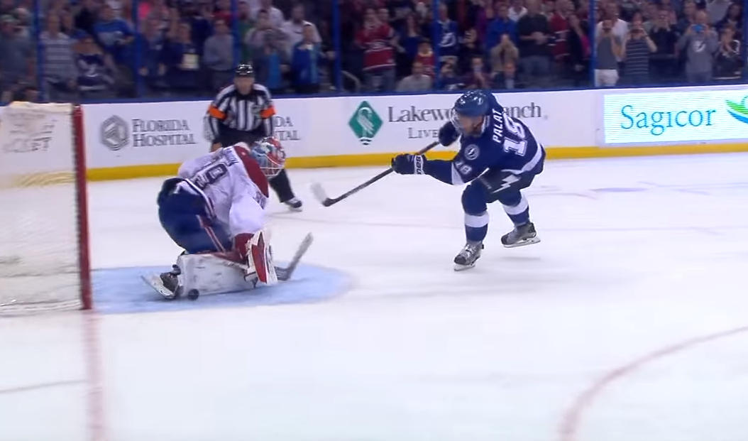 Lightning Foward Ondrej Palat takes a penalty shot against Montreal Goaltender Mike Condon